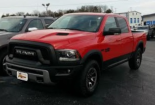 2016 RAM Rebel quarter view